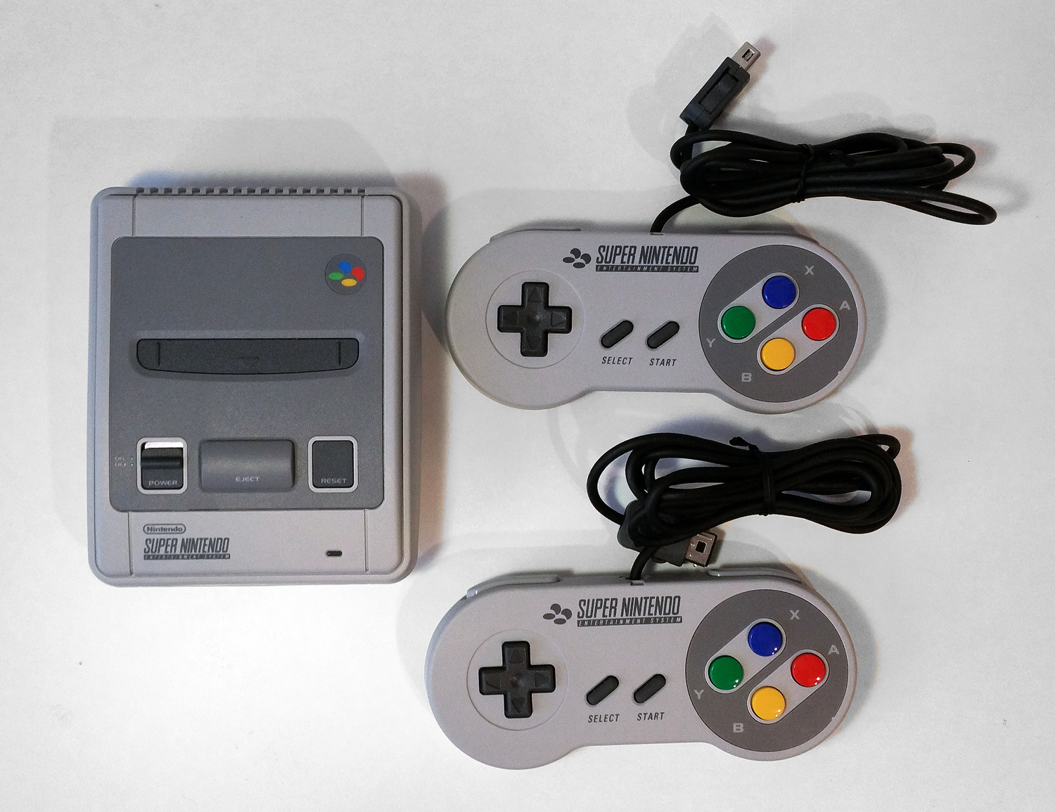 Console with Controller